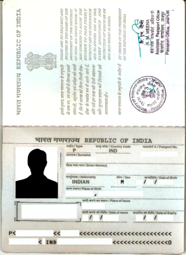 Indian Passport Identity Information Page